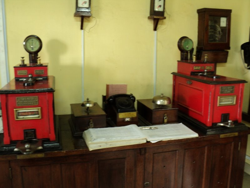 Tyer's tablet machine used in Sri Lanka